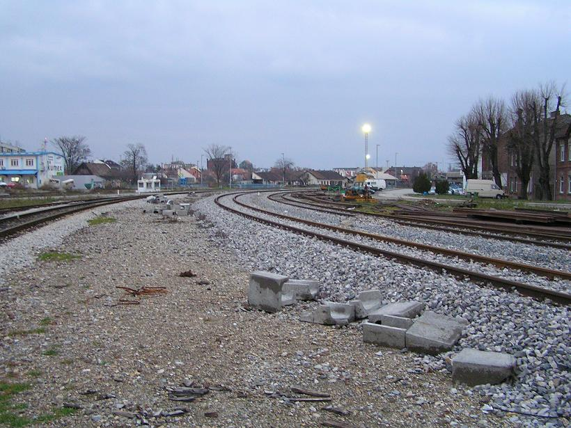 The junction in Osijek, Croatia. The tracks joining here are: from Našice, from Strizivojna-Vrpolje (Paneuropean Koridor V, branch c) and the local railway line from Vinkovci.